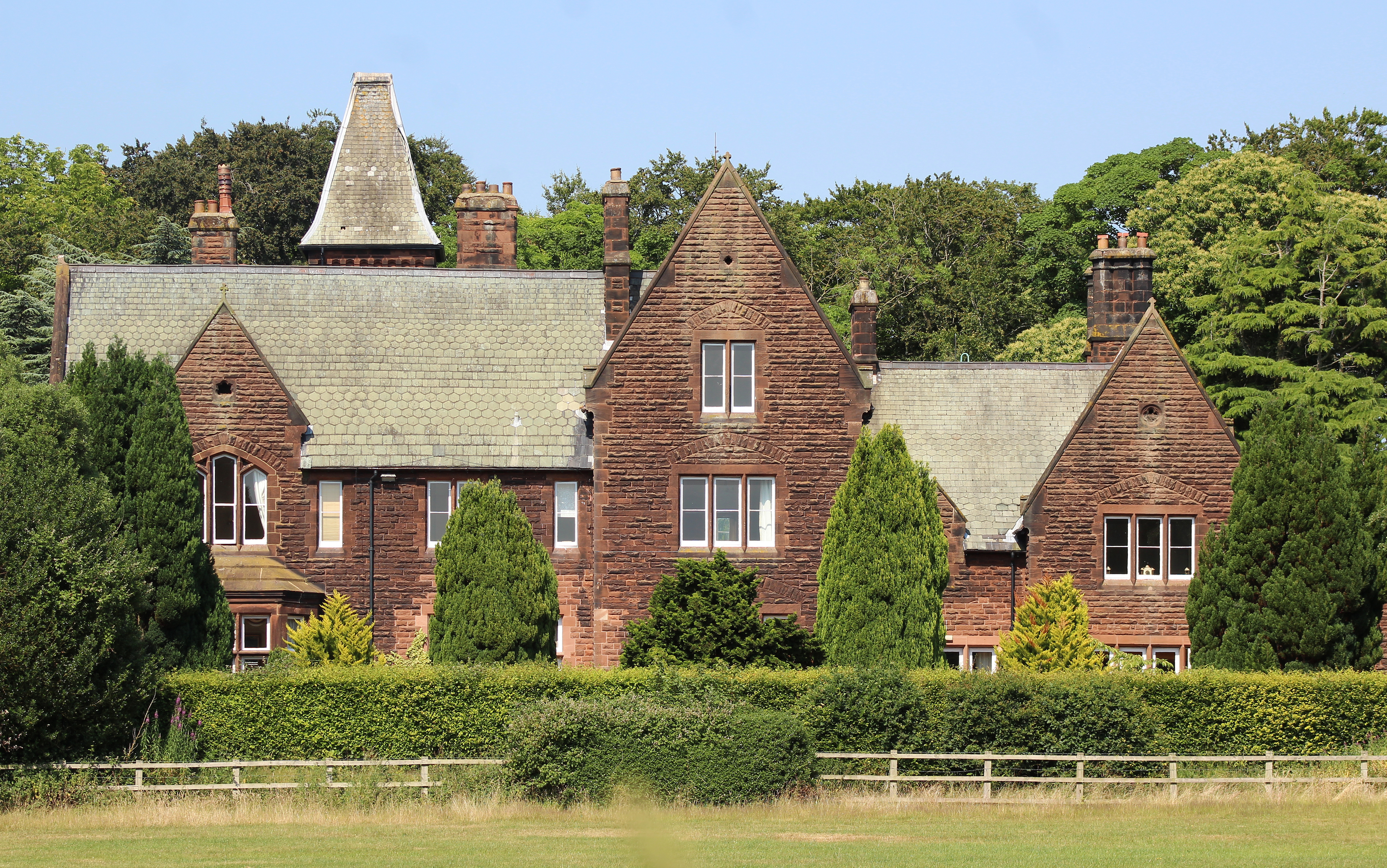 Grade II listed former estate house, 1856, by Alfred Waterhouse. Here viewed across fields from Chester High Road.